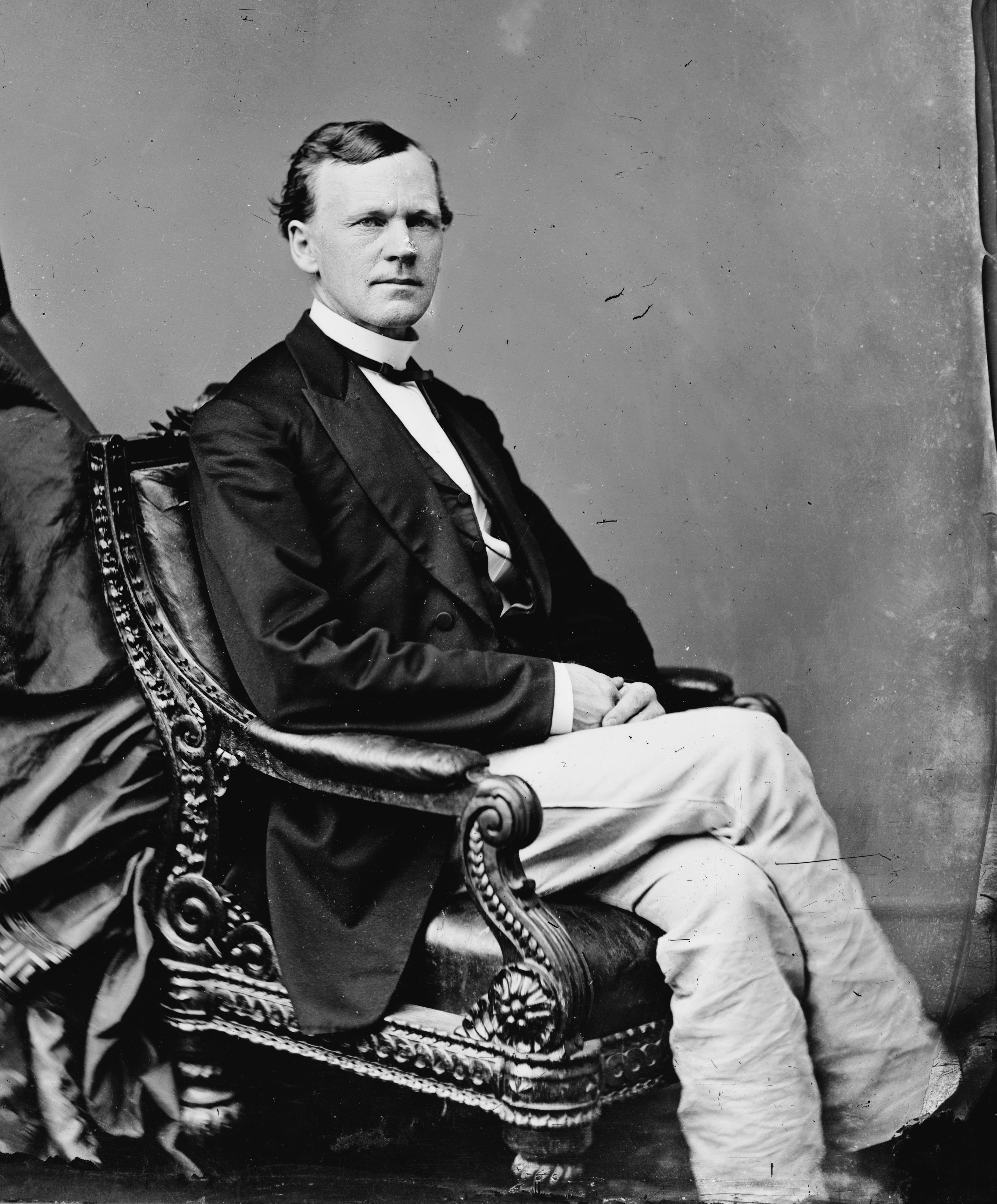 Carlton Brandaga Curtis. Library of Congress description: "Hon. Carlton B. Curtis of PA"